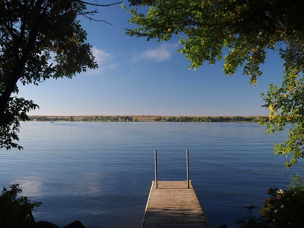 Fishing dock, Big Stone Lake State Park, Minnesota, USA.